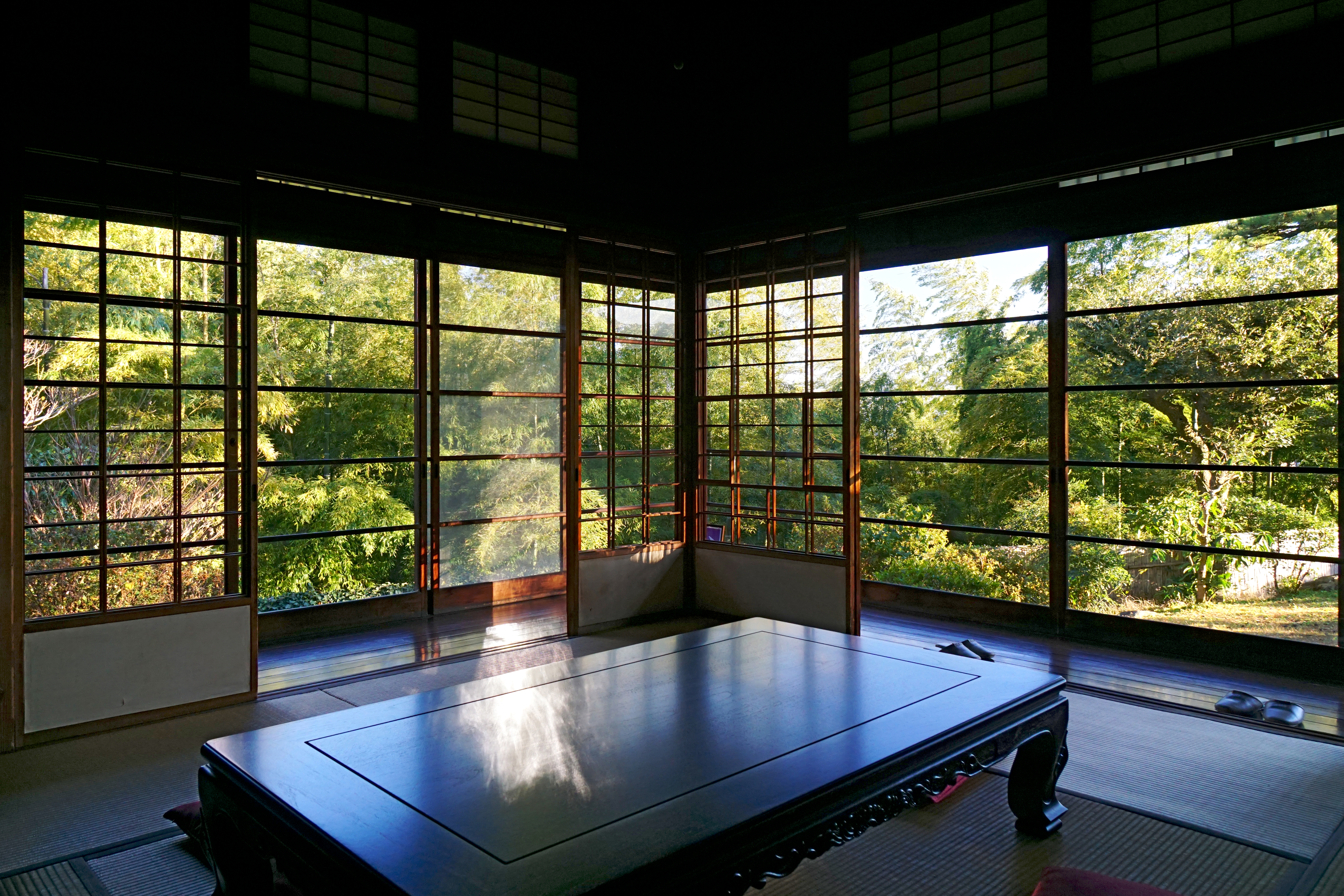 Seikan-tei in Odawara, Kanagawa prefecture, Japan